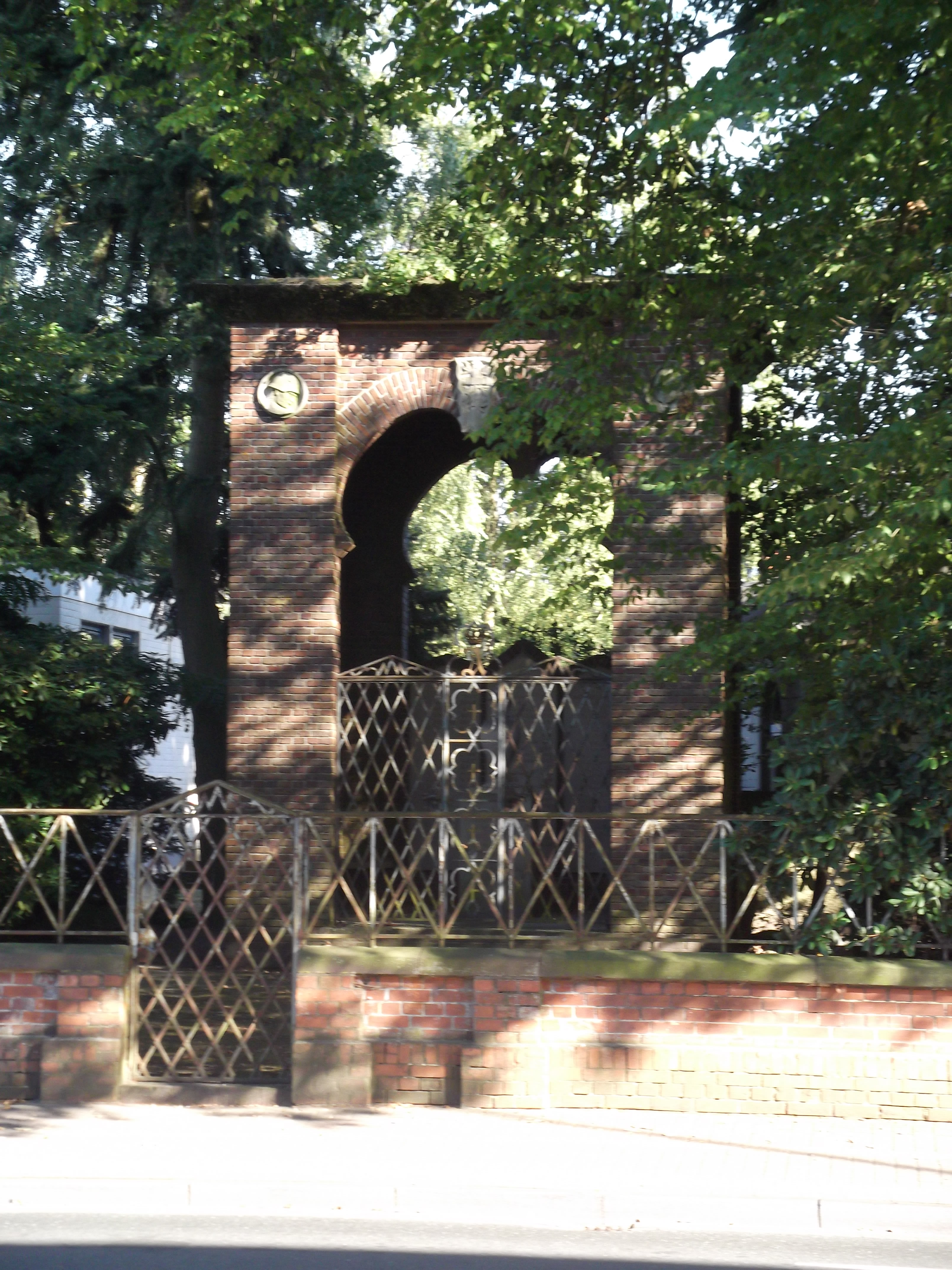 So-called Dragoon monument, position Oldenburg (Oldb), district Osternburg, Cloppenburger Strasse 3. Construction by O. Katzmann, opened 1924. Material Dutch clinker and sandstone. Decicated to the soldiers killed in action in the campaigns of 1866, 1870/71 and 1914-1918. On the backside a complete list of the victims. Source: Dietrich Hagen: Oldenburger Steinlese. Studien zur Natursteinverwendung und Dokumentation der steinernen Denkmäler, Brunnen und Skulpturen in der Stadt Oldenburg, Oldenburg (Isensee) 1993, S. 93.